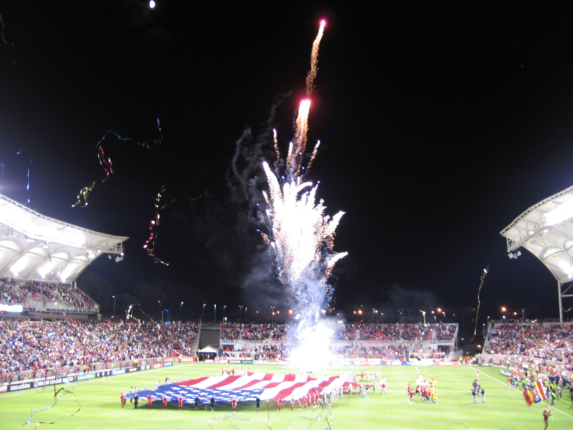 Rio Tinto Stadium inaugural game; Salt Lake Real vs. Red Bulls New York, 9 Oct, 2008. Stadium is located in Sandy, Utah, USA.